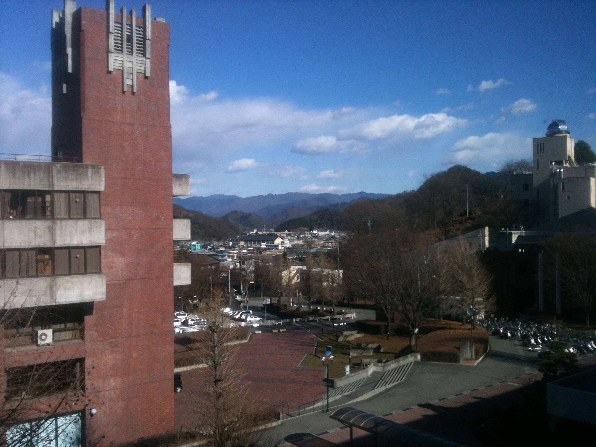 Viewed from the Bldg. No.1, Tsuru University